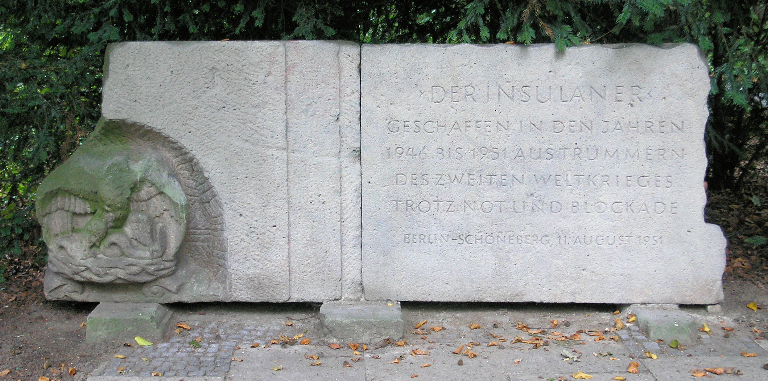 Memorial stone, Insulaner (Berg), Munsterdamm , Berlin-Steglitz, Germany Koordinate:52°27′27″N 13°21′8″E / 52.4575°N 13.35222°E